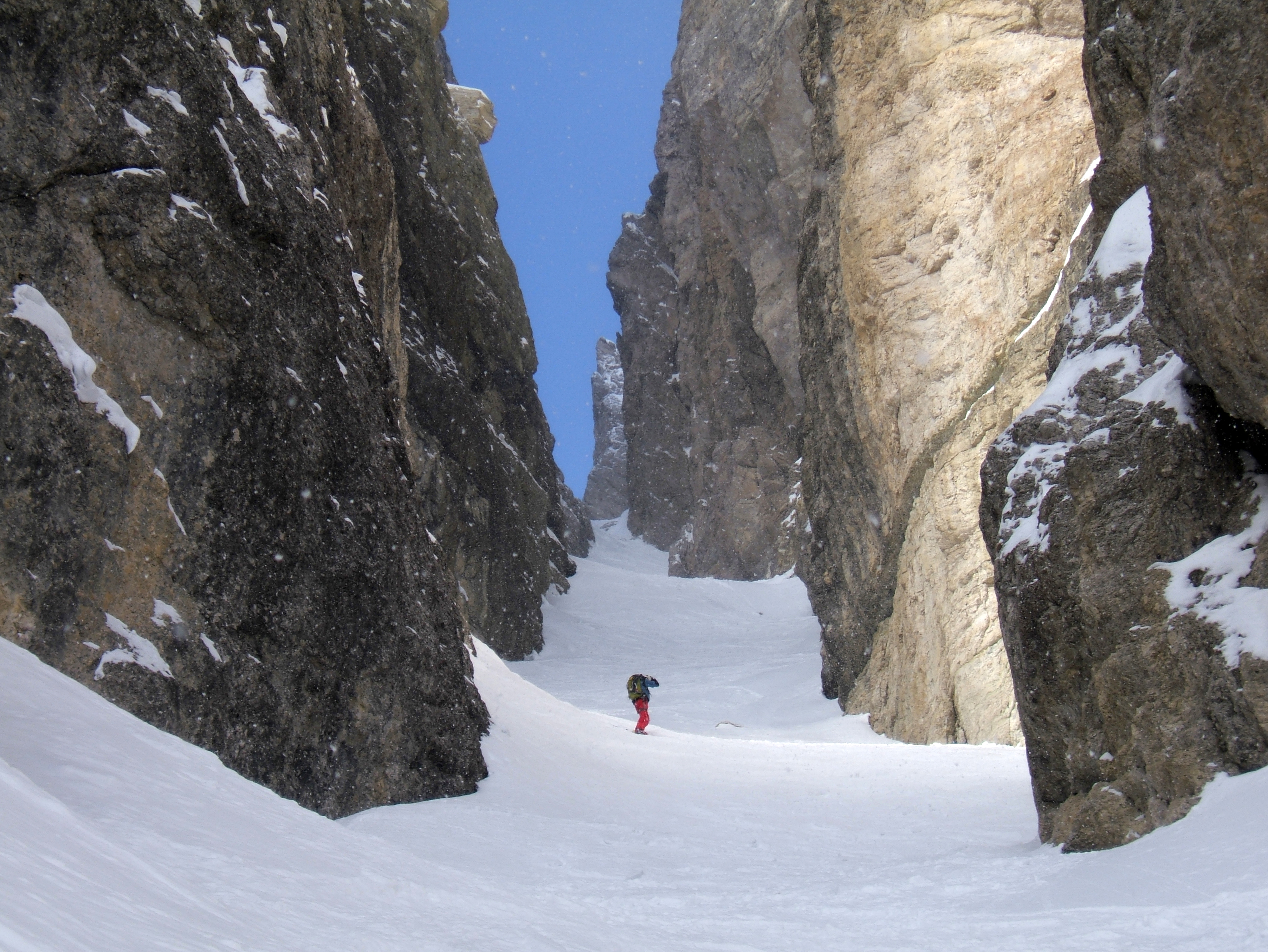 Val Scura, Ski descent, Andi Riesner, Mario Zott